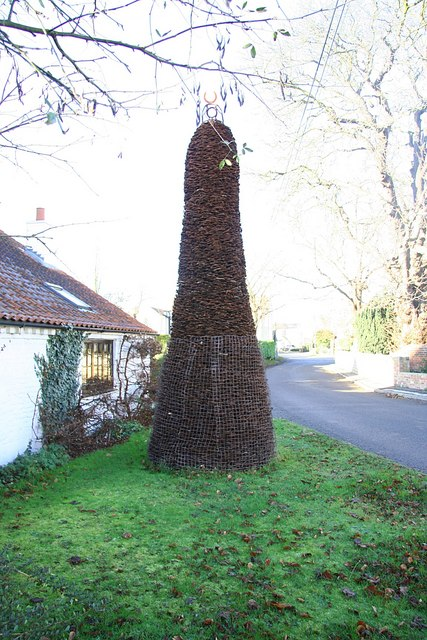 Scarrington Horseshoes Tower of around 50,000 horseshoes outside the Old Forge at Scarrington, built between June 1945 and April 1965 by Mr.George Flinders, village blacksmith for over 51 years. The shoes are interlocked without any supporting column to make the tower 17 feet high, with a circumference at the base of 19'6". It has an estimated weight of 10 tons and is thought to be the largest stack of used horseshoes in the world.